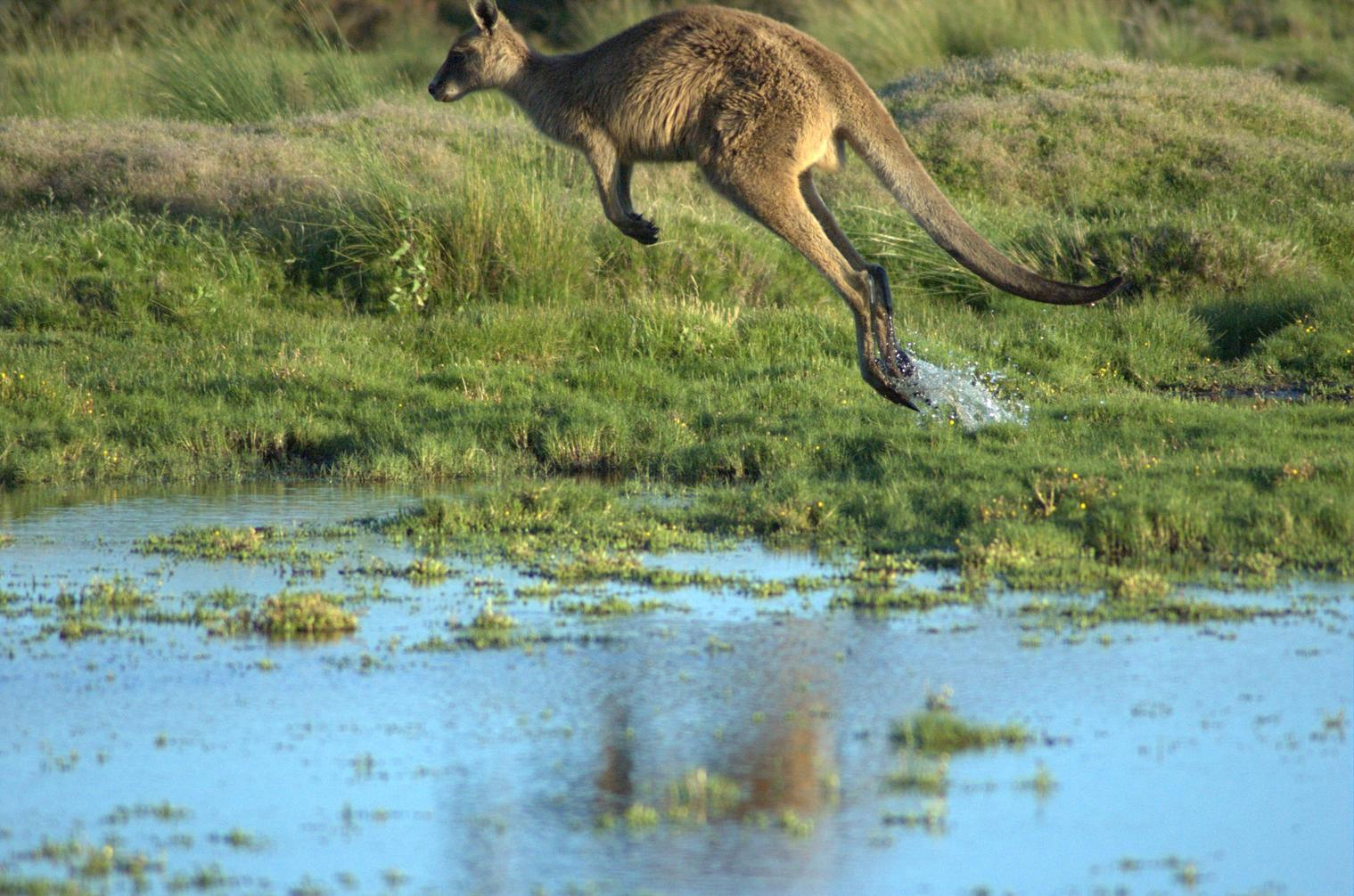 A Forester (Eastern Grey Kangaroo) "in flight". Picture taken in Narawntapu National Park, Tasmania in December 2005. An even higher resolution of this photo is available upon request. пан Бостон-Київський 19:56, 27 January 2006 (UTC)